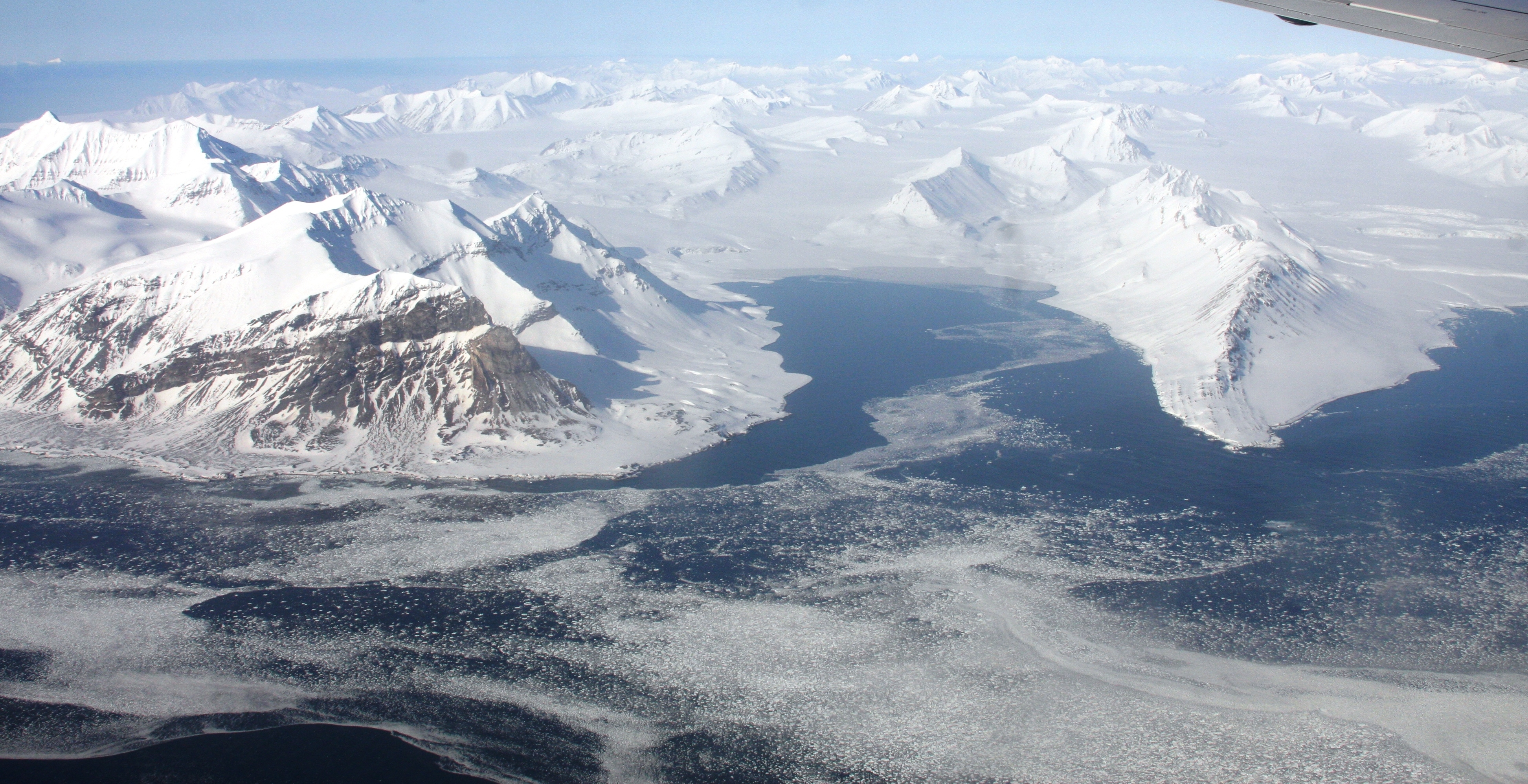 Mountains in Oscar II Land north of Isfjorden, Svalbard